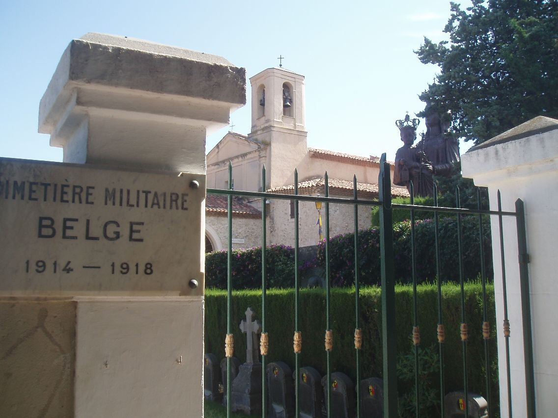 Belgian war cemetery 1914-18 at ChapelleSaint-Hospice in Saint-Jean-Cap-Ferrat